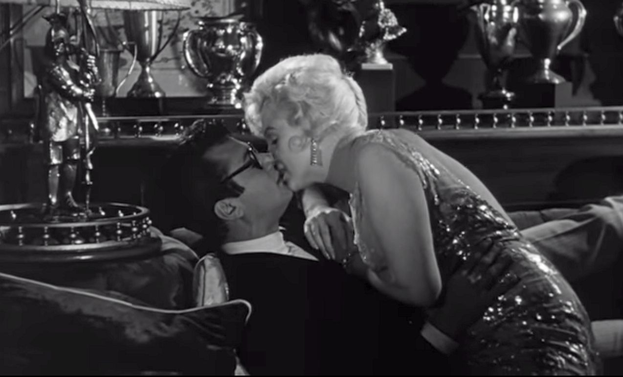 Some Like It Hot trailer screenshot